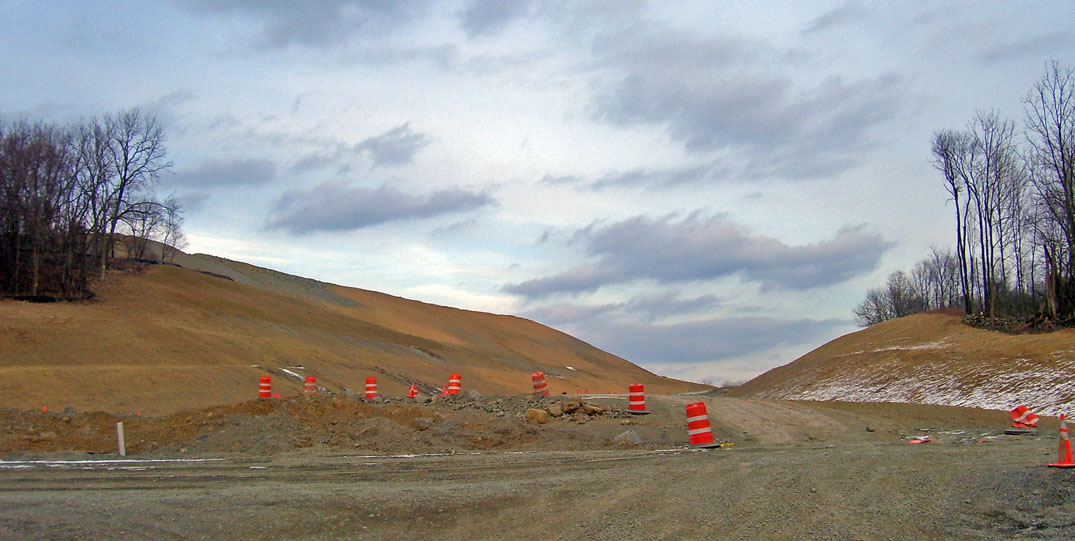 Photographed by Daniel Case 2007-02-12